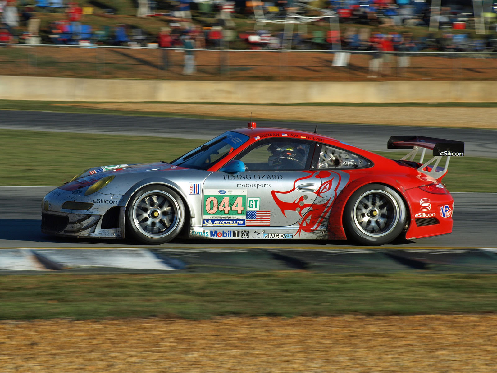 Marco Holzer driving the Flying Lizard Motorsports Porsche 997 GT3-RSR in the 2011 Petit Le Mans at Road Atlanta.